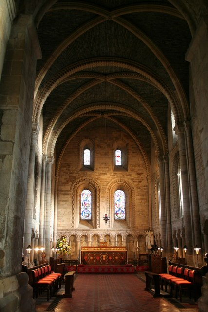 St.Mary's chancel Late Norman and a restoration by Pearson in 1853-64.